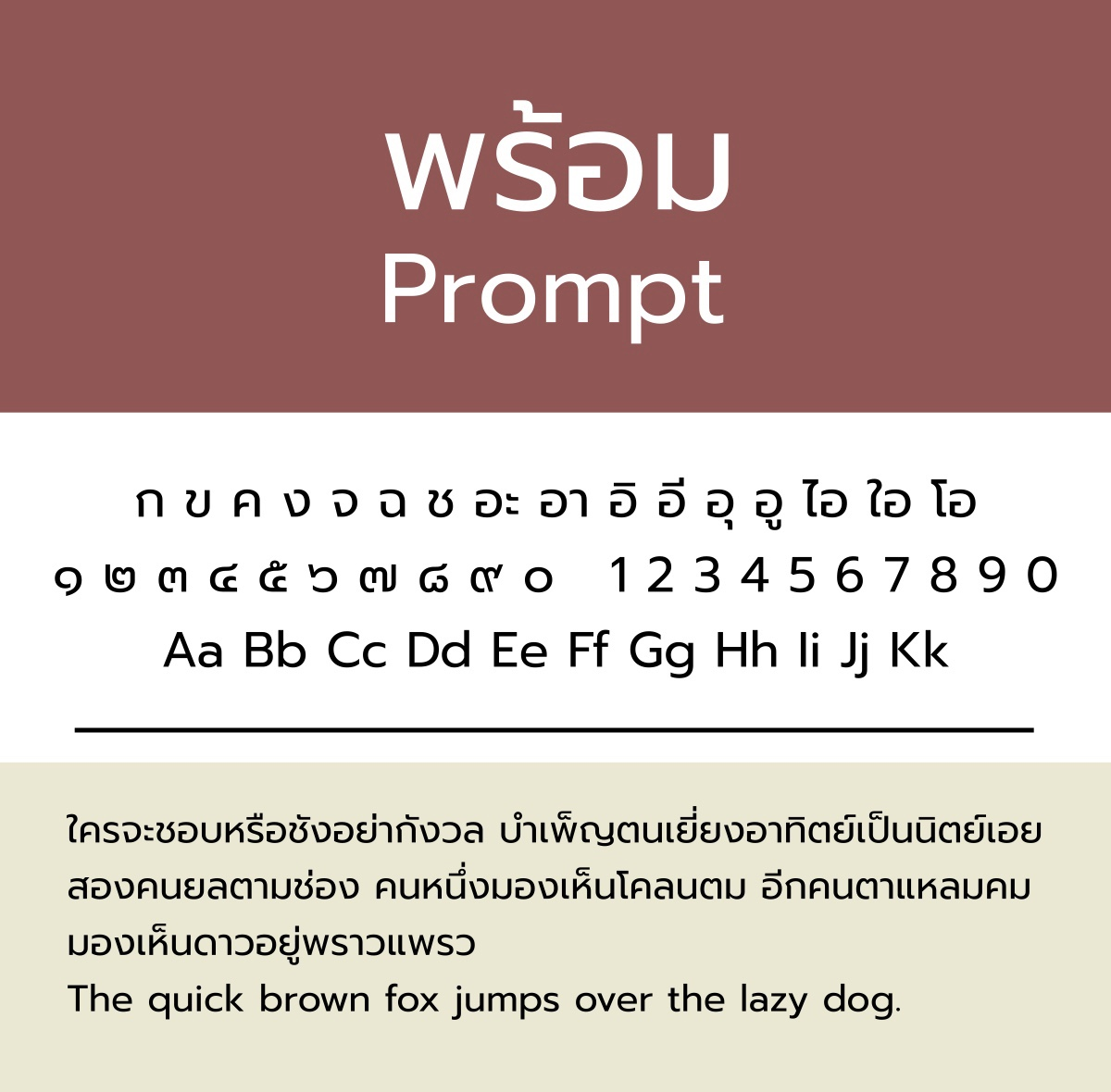 Sample text in Thai and Latin Script for Prompt font